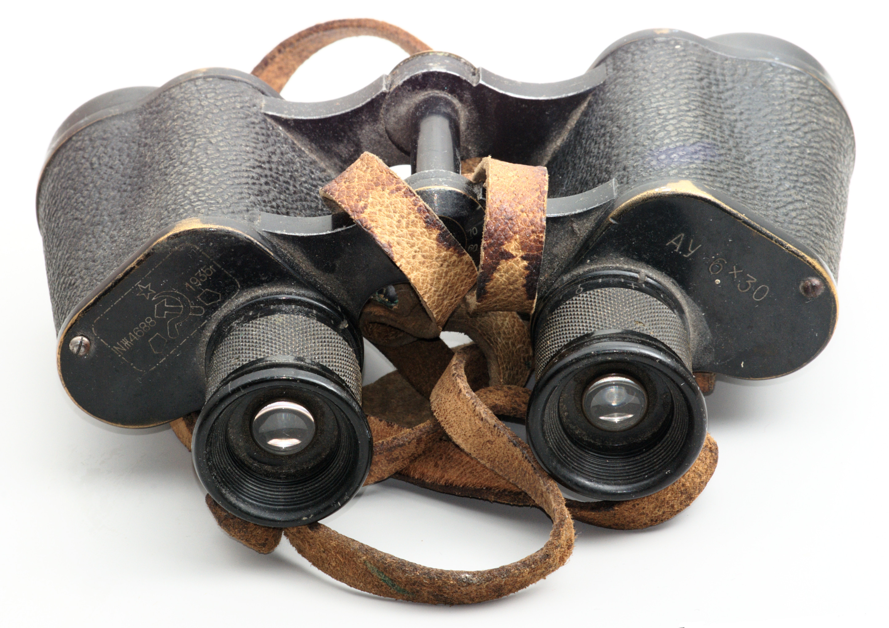 Binocular 6x30